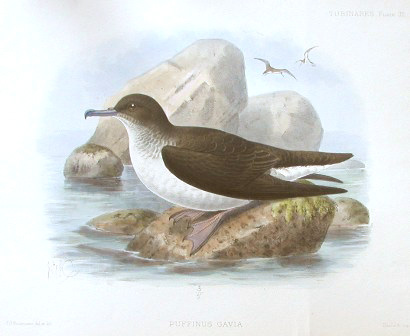 Fluttering shearwater, Puffinus gavia